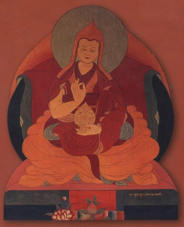 The Sixth Dalai Lama, Tsangyang Gyatso